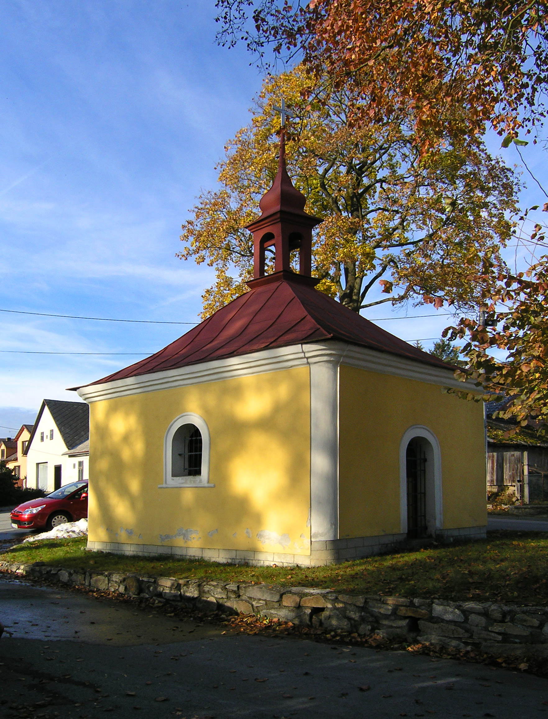 Chapel in Bílý Kámen village, Czech Republic